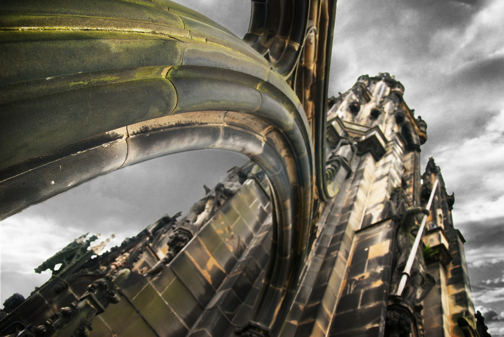 A photo of the Scott Monument from the first level looking towards the top